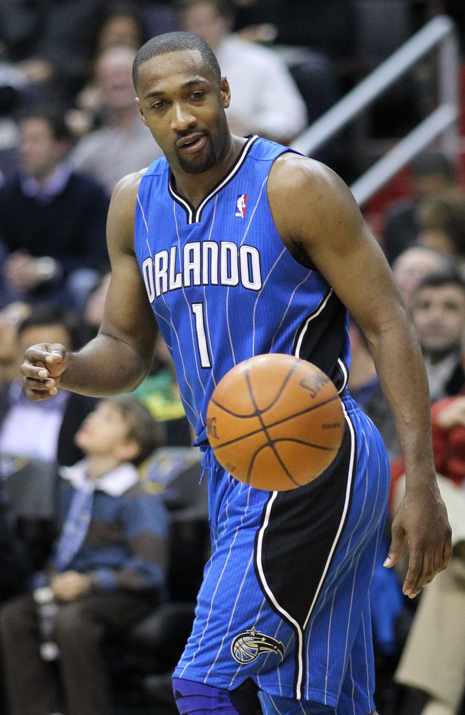 Gilbert Arenas playing with the Orlando Magic